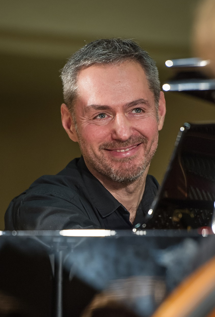 Photograph of the artist, taken January, 2017